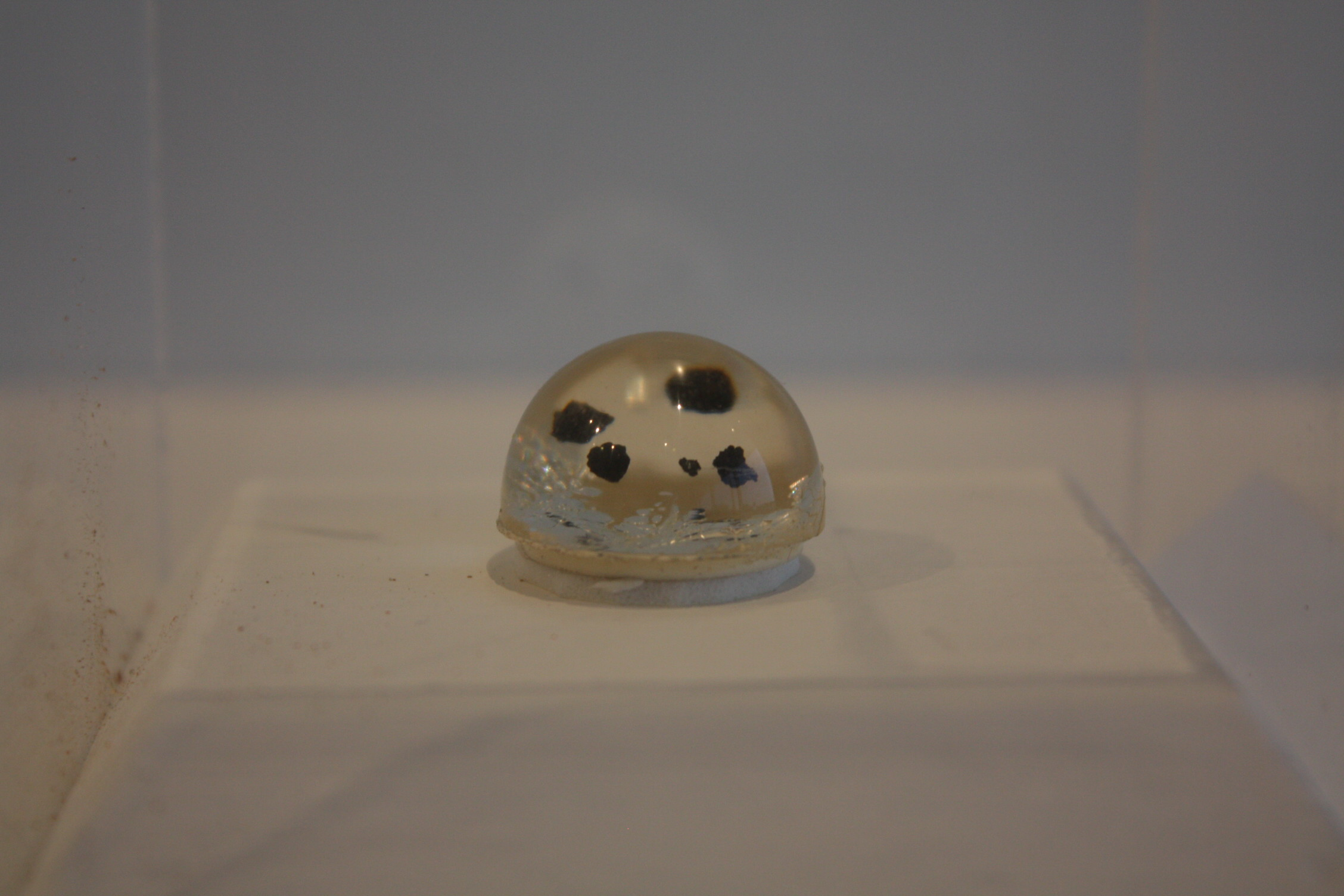 Photos of the New Jersey State Museum's Apollo 11 moon chips, on view in the temporary exhibit "Natural History Highlights" in the New Jersey State Museum's first floor, Trenton, NJ, USA. Photos taken on 14 September 2012 by NJSM Natural History Bureau Registrar Rodrigo Pellegrini.